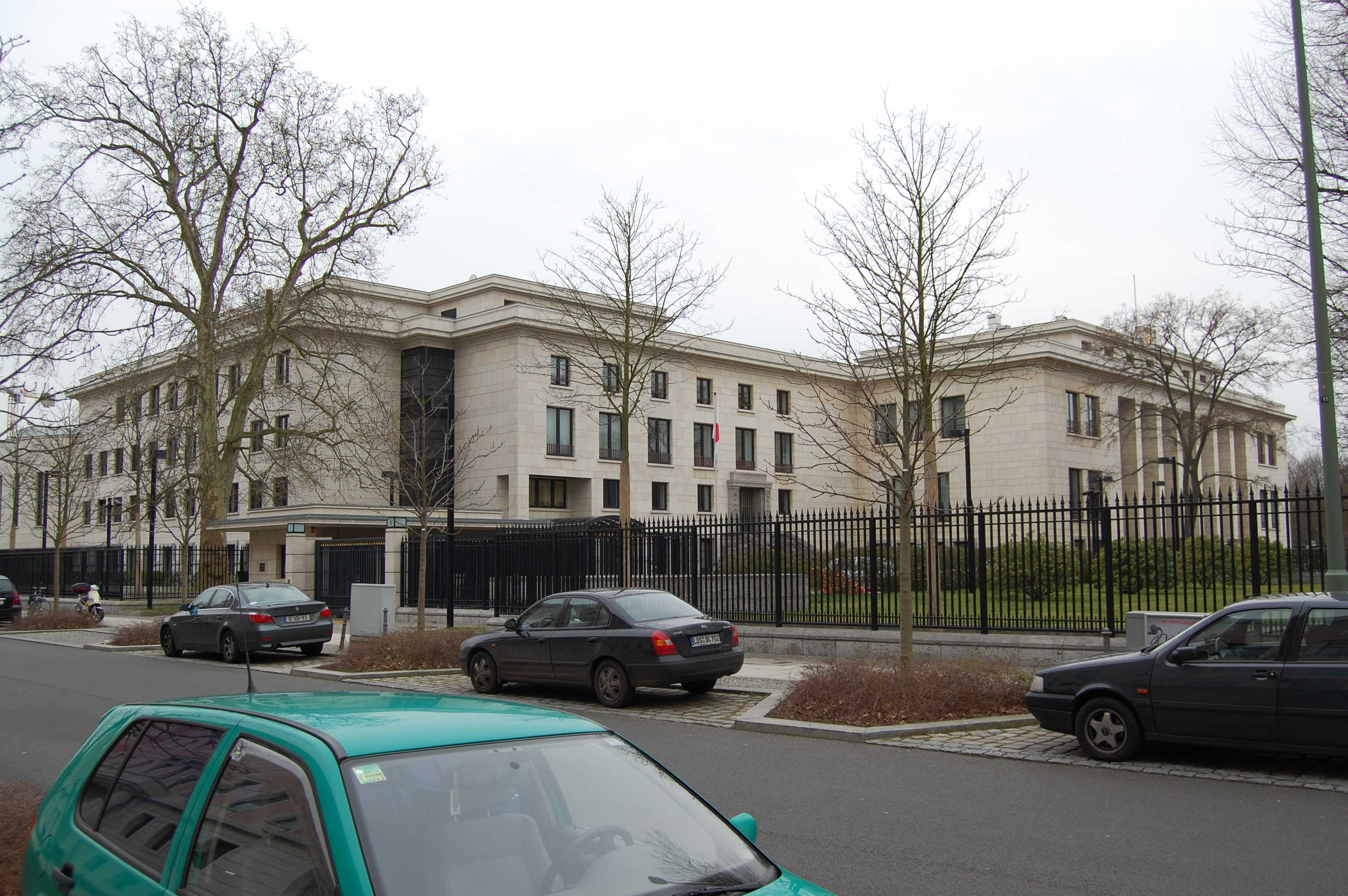 The Japanese embassy in Berlin in 2008. After the preceding Japanese embassy in Berlin had to give way to Hitler's and Albert Speer's plans of re-modeling Berlin to the world capital city of "Germania", this new and more pompous building was erected in 1938 in a newly established diplomatic district next to the Tiergarten. It was conceived by Ludwig Moshamer under the supervision of Speer and was placed right opposite to the embassy of Italy, Germany's closest ally, thereby bestowing an architectural emphasis on the Rome-Berlin-Tokyo axis.[1][2] Around the mid-80s, German and Japanese representatives decided to rebuild the Japanese embassy whose remains had remained unused after the building was largely destroyed during World War II. In addition to the original complex, several changes and additions were made until 2000, like moving the main entrance to the Hiroshima Street, which was named in honour of the homonymous Japanese city, and the creation of a traditional Japanese garden.[3][4]